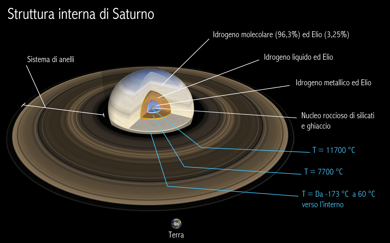 ISaturn internal structure.